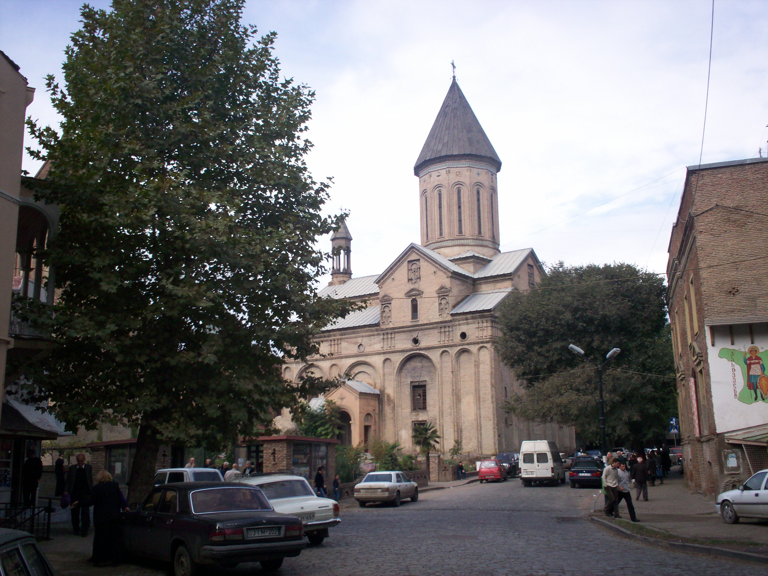 The 15th century Norashen Armenian Church in Old Tbilisi.